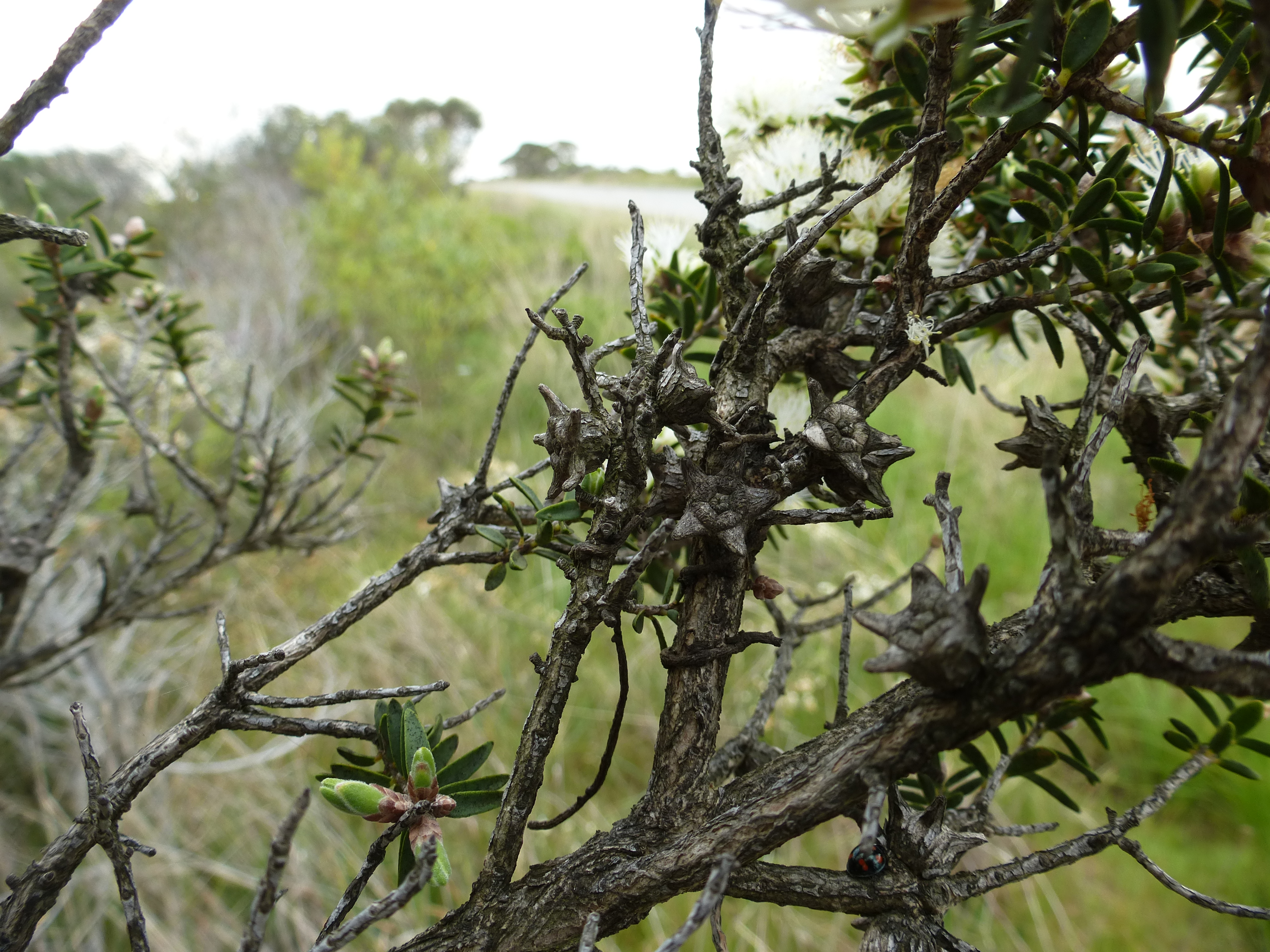 Melaleuca cuticularis 50 km E of Ravensthorpe